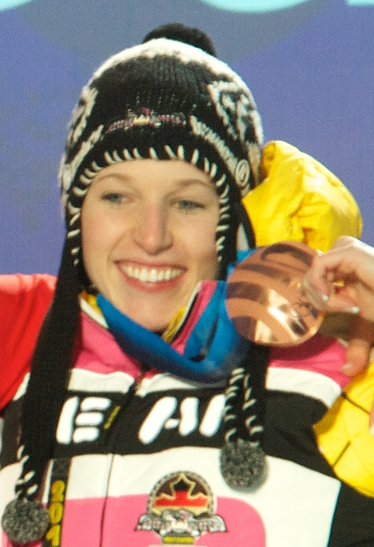 Anja Huber at the Medal Ceremony at Whistler on Day 9 of the Vancouver 2010 Winter Olympics.